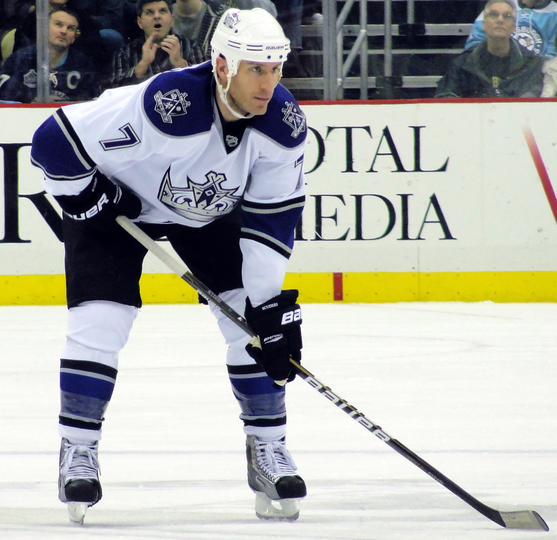 Rob Scuderi during a February 10, 2011 game between the Los Angeles Kings and Pittsburgh Penguins at Consol Energy Center in Pittsburgh, PA.